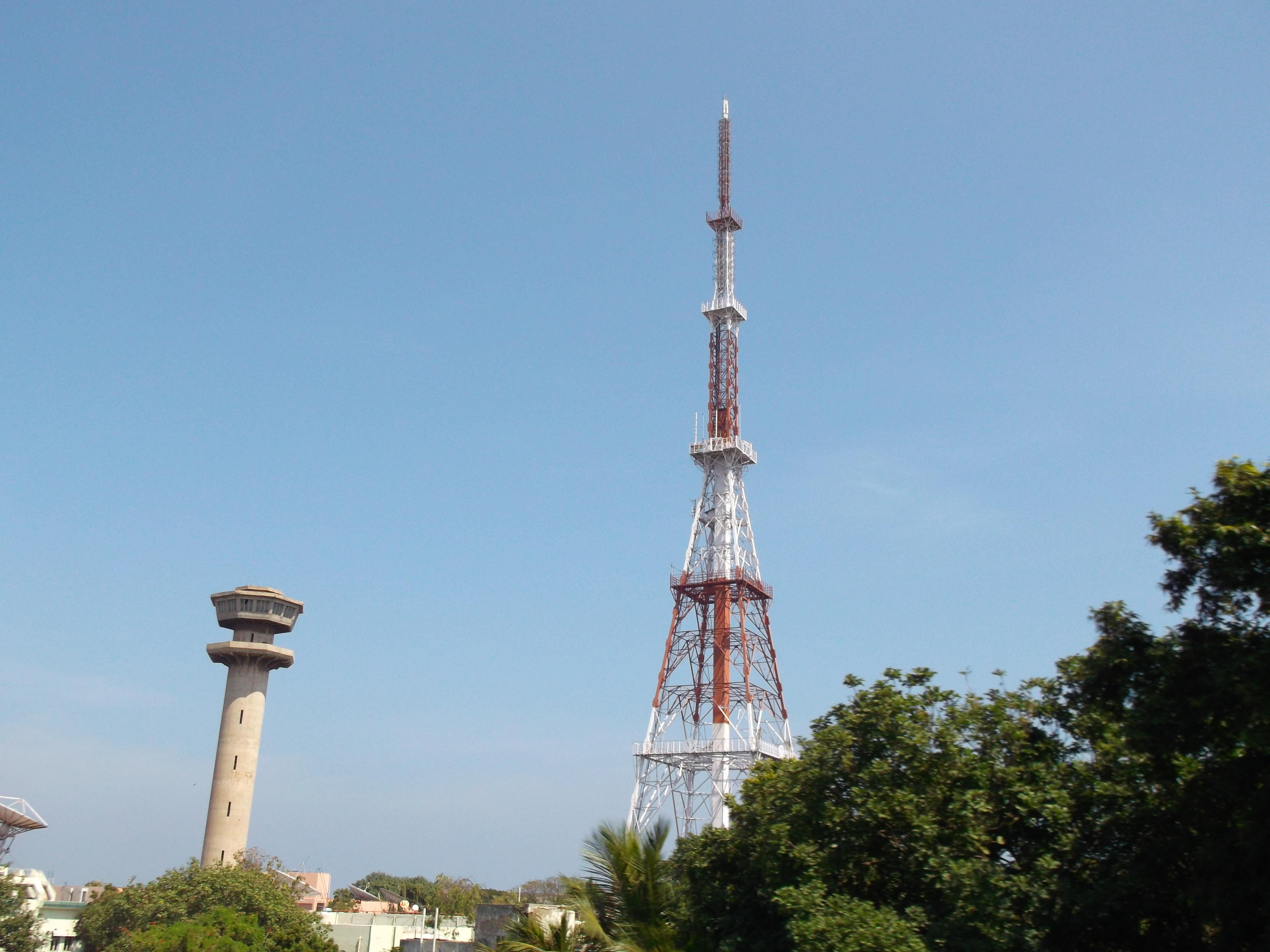 Doordarshan Kendra, Chennai, TV Tower, taken on 2-Feb-2013, 12:30 pm